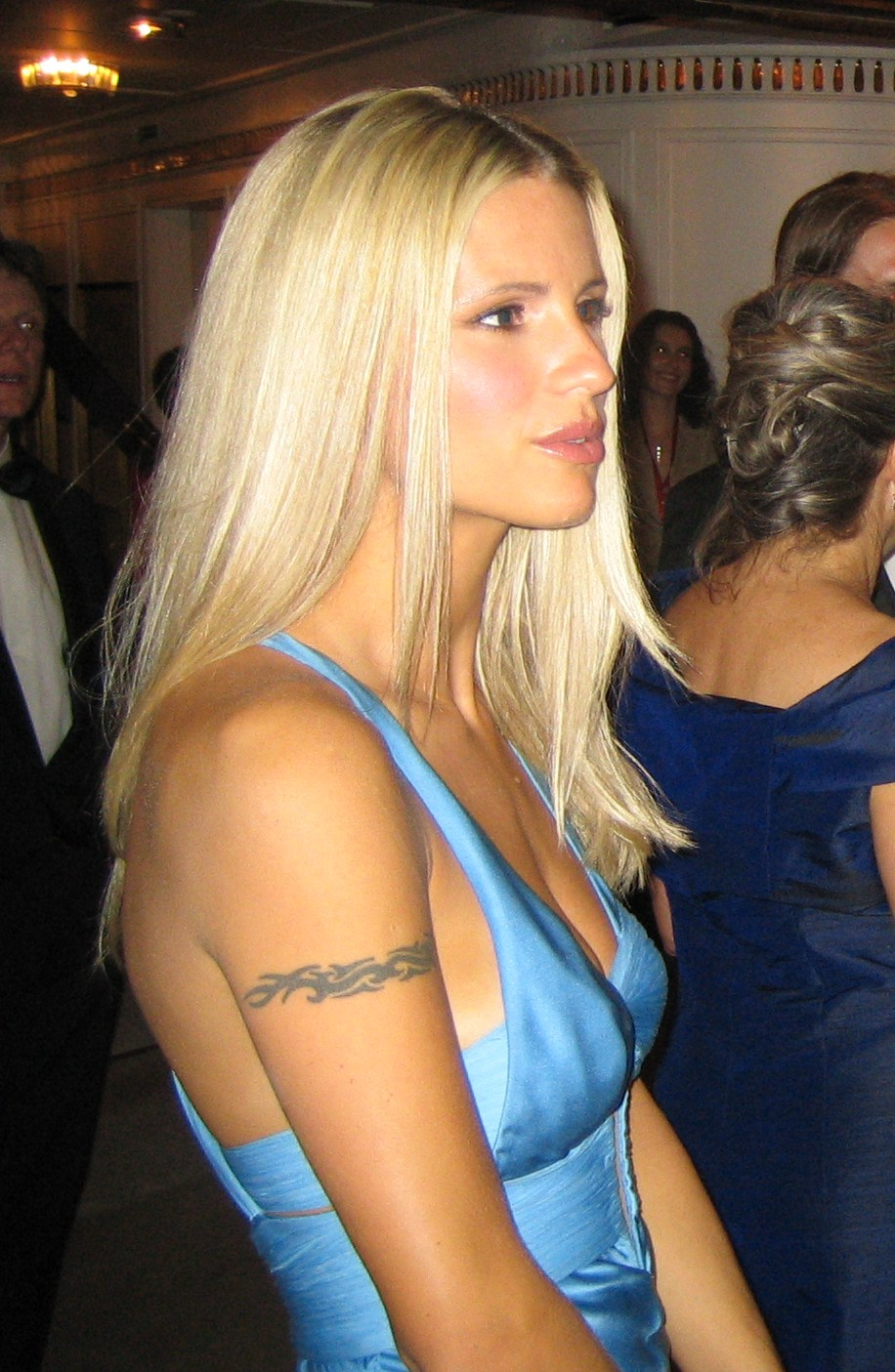 Michelle Hunziker with Harry Hamlin on the Yacht H.M. Britannia, 2006 in Edinburgh